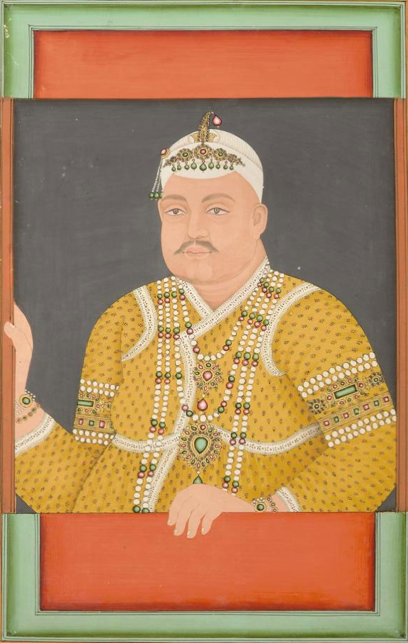 Nasir-ud-dawlah, Nizam of Hyderabad 1794-1857 Gouache on paper heightened with gold, wearing yellow patterened robes and elaborate pearl, emerald and ruby jewelry and white cloth hat, in white mount - 25.4 x 16.5cm